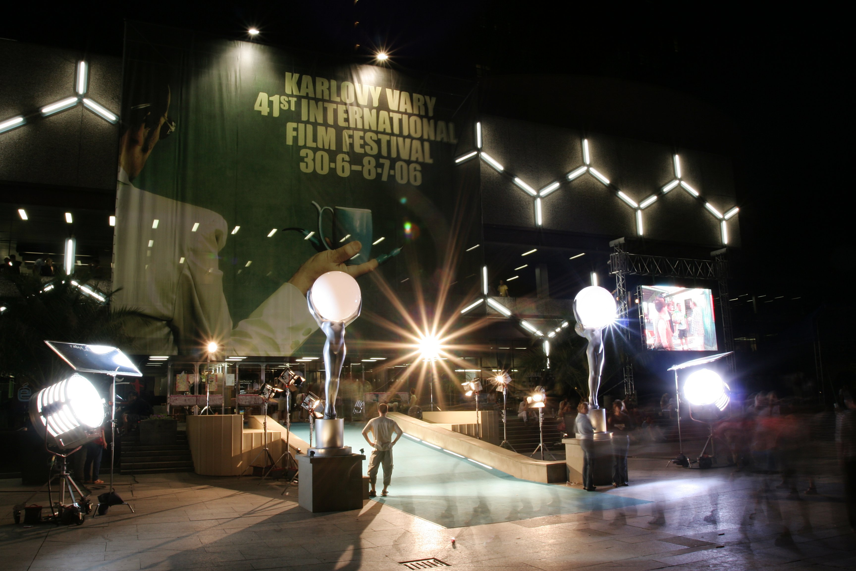 "Blue carpet" in front of hotel Thermal, during 41st Karlovy Vary International Film Festival